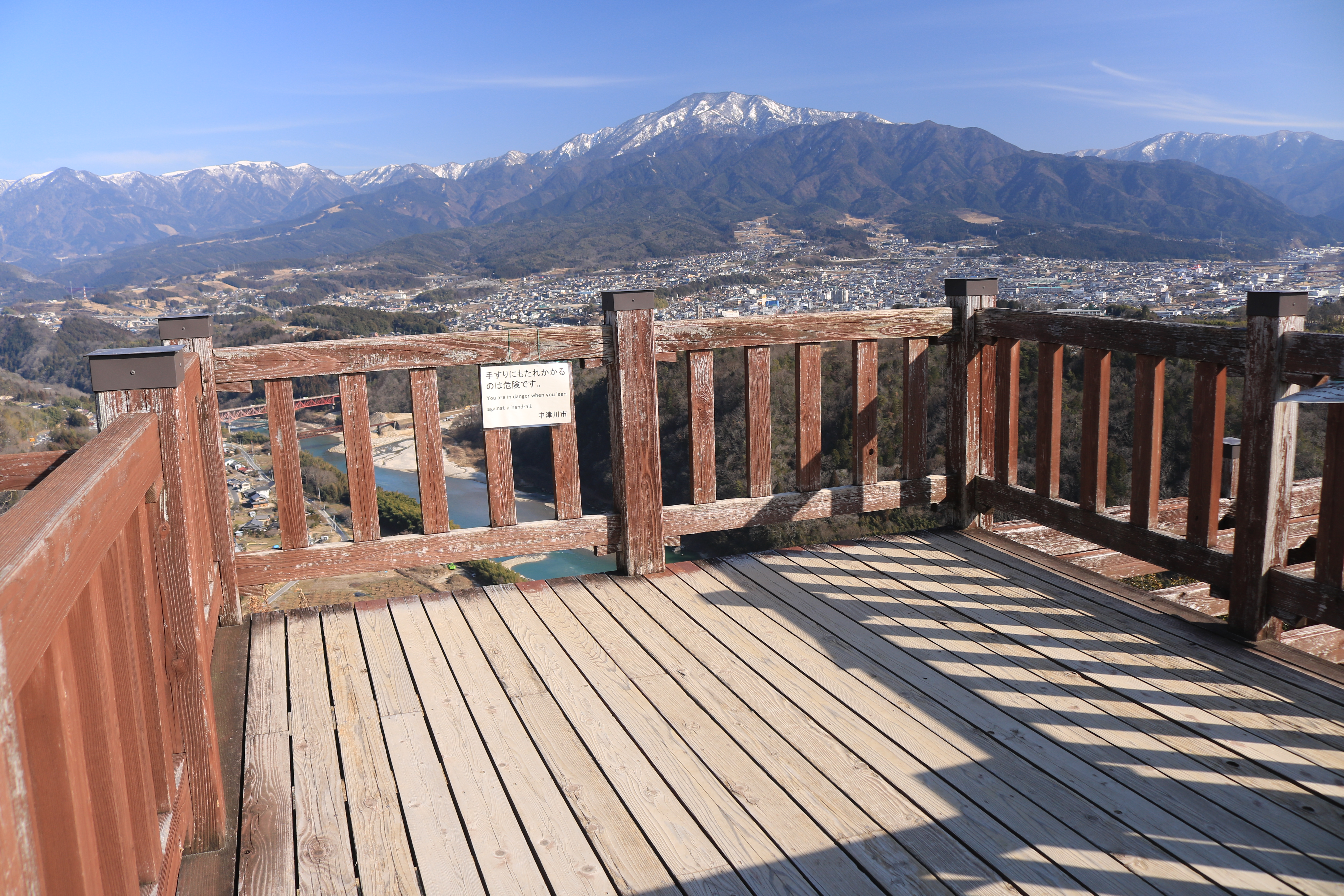 Observation deck of Naegi Castle in Nakatsugawa, Gifu prefecture, Japan.